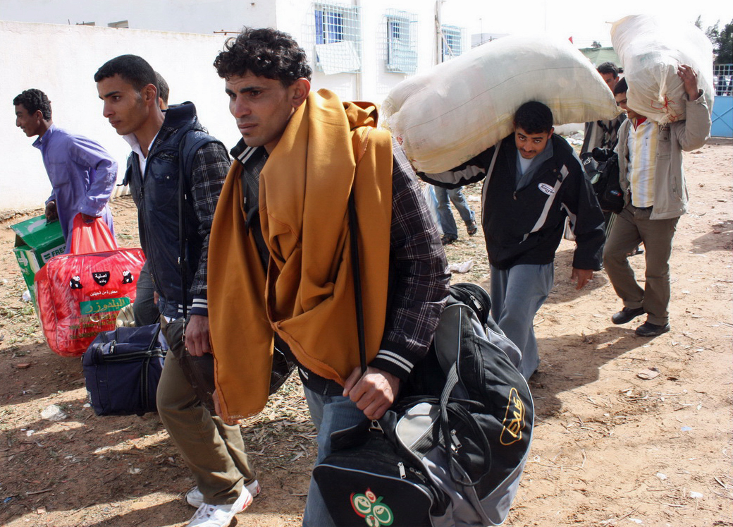 [Mohamed El Hedef] "We were in horror and panic in these last few days in Libya; something that made us rush to escape," Mohammed Ahmed says. "عشنا حالة من الخوف والهلع في الأيام الأخيرة بليبيا مما جعلنا نعجل في الهروب"، هكذا يقول محمد أحمد "Nous avons vécu l'horreur et la panique ces derniers jours en Libye ; c'est ce qui nous a poussés à nous enfuir", dit Mohammed Ahmed. The story: القصة L'article